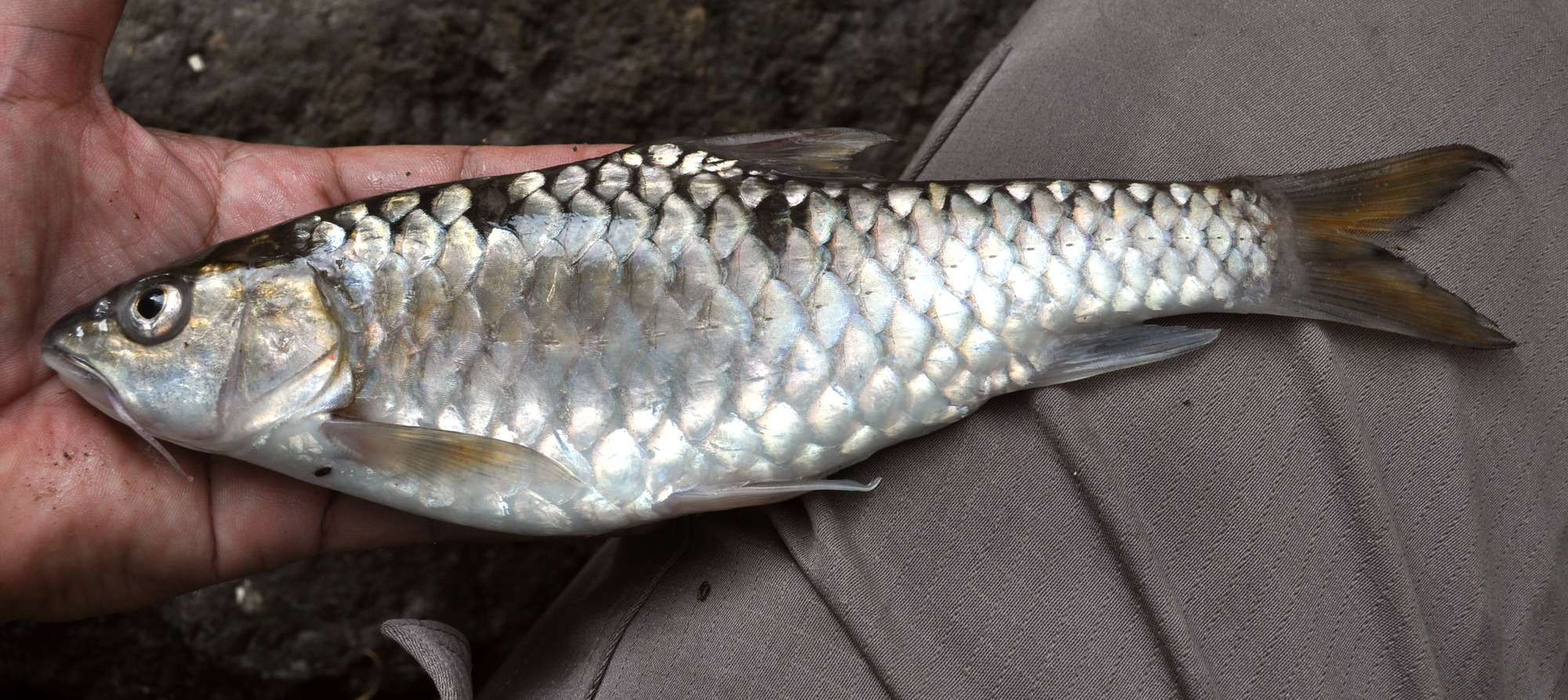 Tor douronensis, 245 mm SL (standard length). From Jambi, Sumatra, Indonesia.